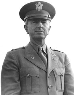 General Albert Coady Wedemeyer (1897 – 1989), United States Army commander who served primarily in Asia during World War II.